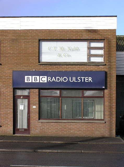 BBC Radio Ulster. The local offices of the BBC located at Mountjoy Road, Omagh.